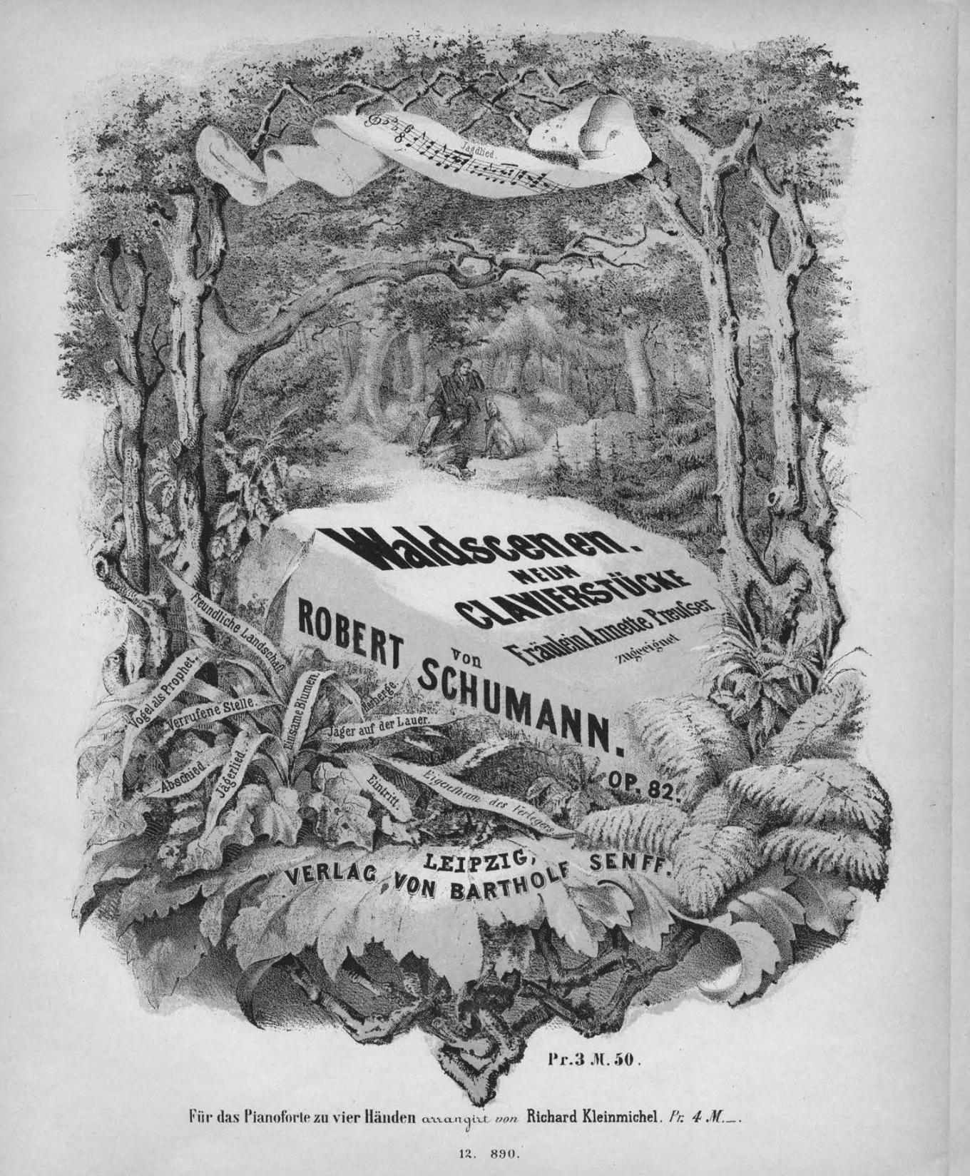 Cover of the first edition of Schumann's Waldszenen, Op 82 (Bartholf Senff)